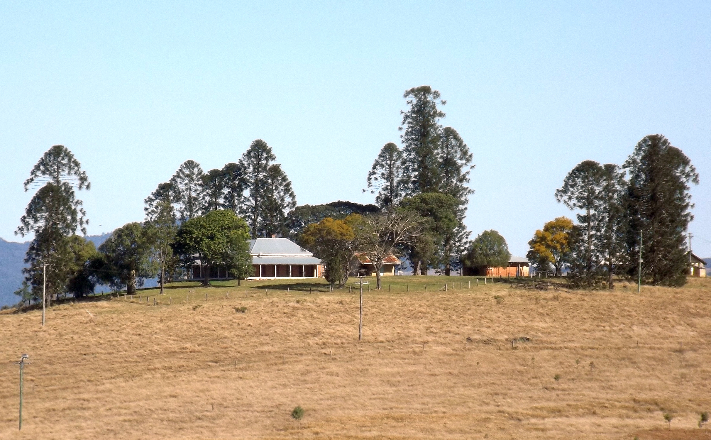 Photo of Kilcoy Homestead and property at Winya, Somerset Region, Queensland, Australia.